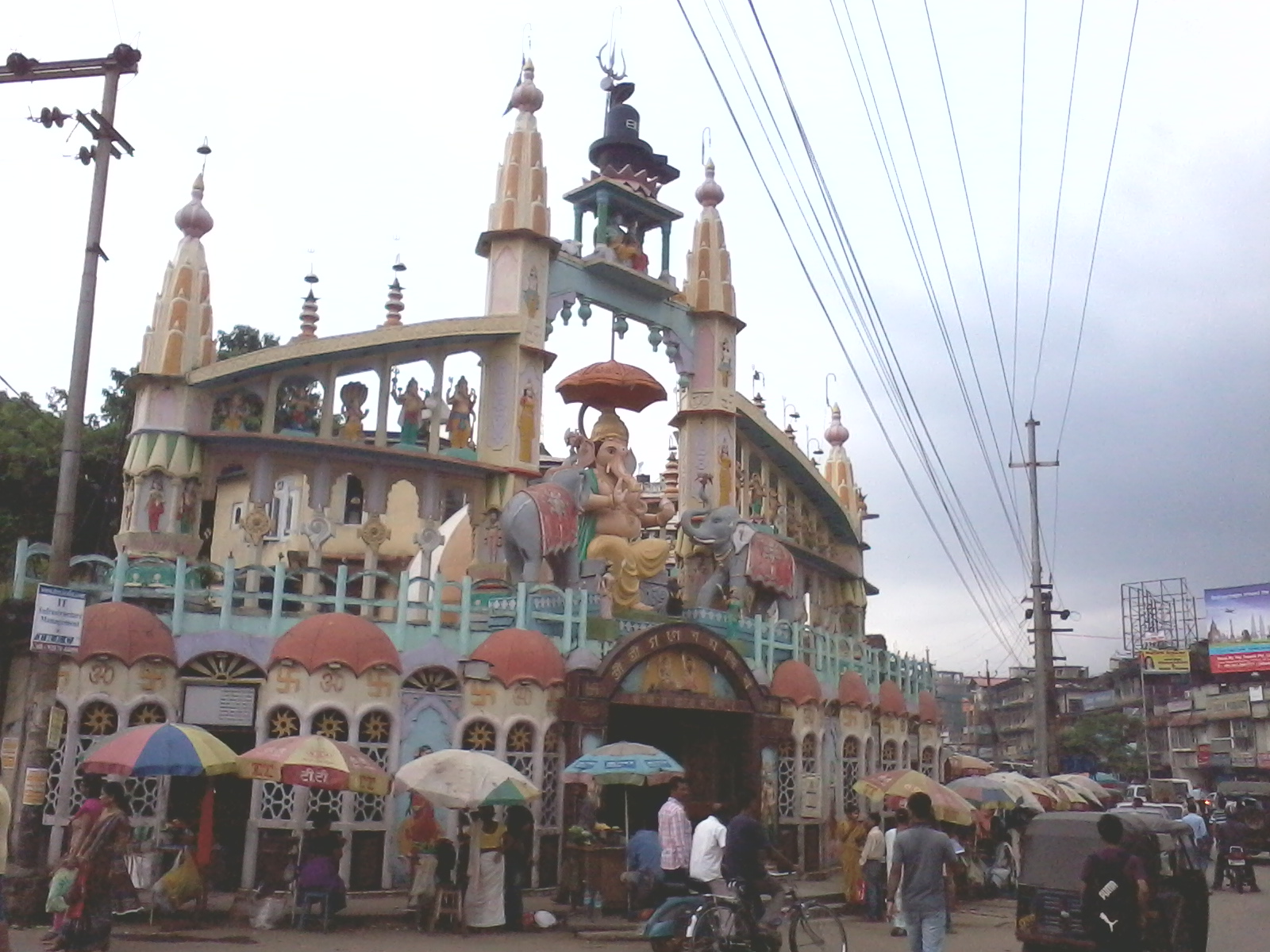 Ganesh Temple located in Ganeshguri in Beltola Mouza, Guwahati.